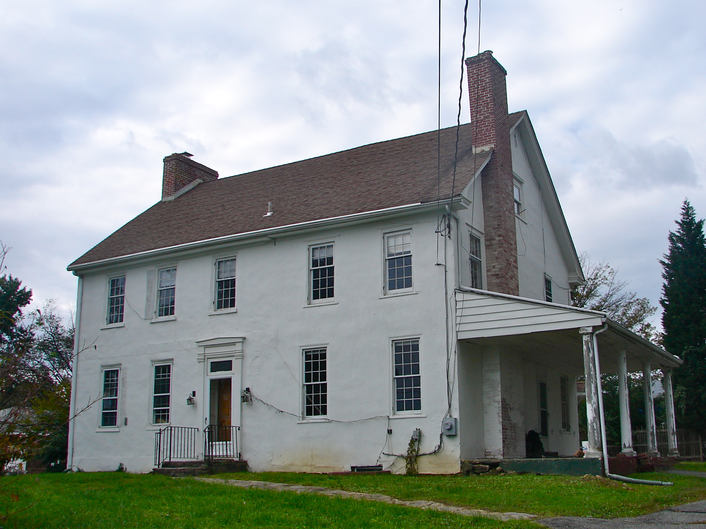 Thomas Justis House on the NRHP since September 23, 1993. At 1001 Milltown Rd., Mill Creek Hundred, near Wilmington, Delaware.